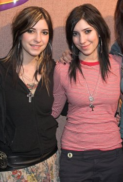 The Veronicas at Kiss 106.1 on November 22, 2005.